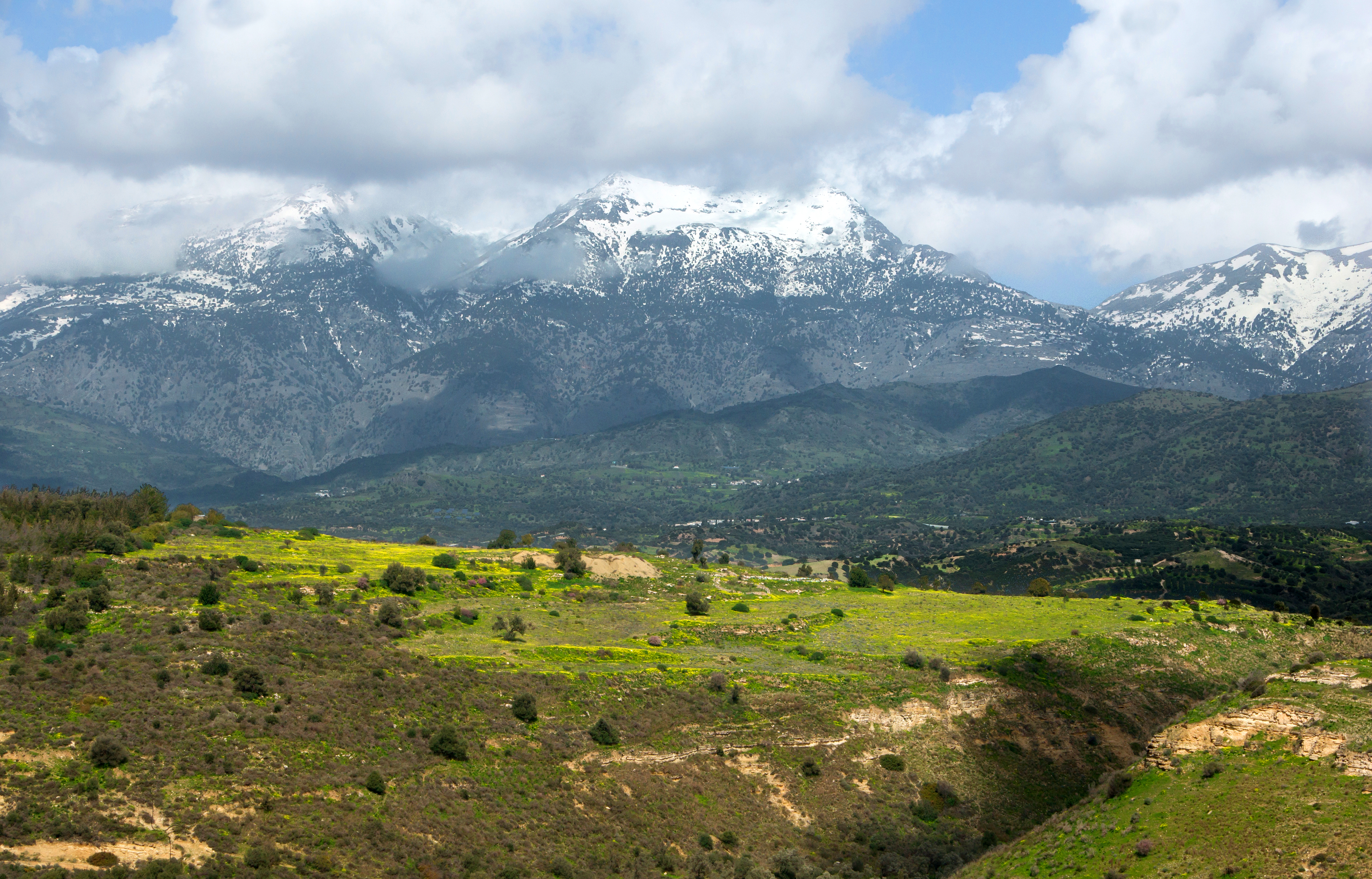 The Mount-Ida mountain chain, from Phaïstos, Crete, Greece